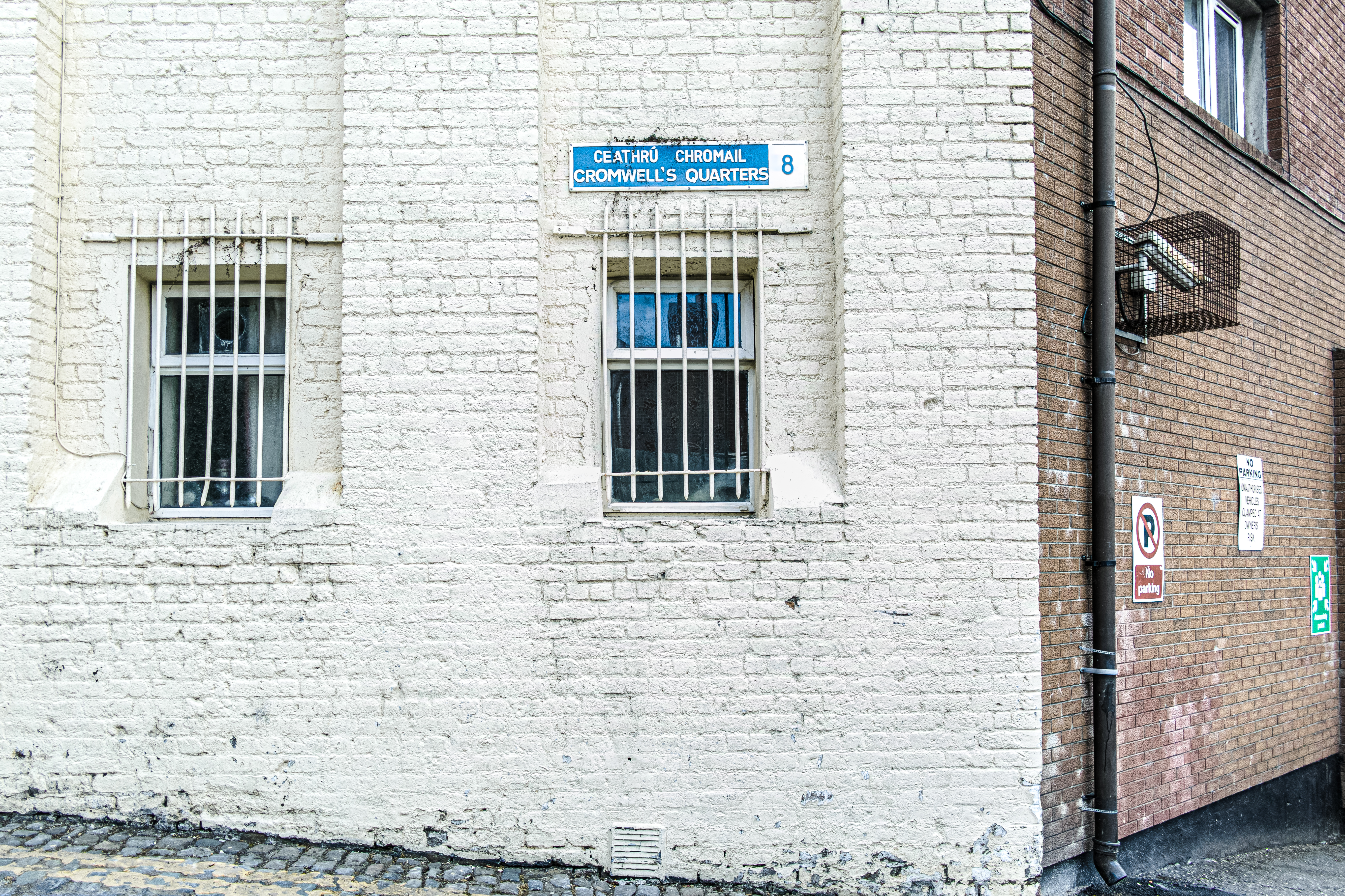 Cromwell was never too popular in Ireland so the name of this alleyway is surprising. When I was young I went to school in Dublin City Centre and as we finished school at 12:30 every Wednesday I got plenty of opportunity to explore most parts of the city and back I knew this stepped laneway well. Back then I was convinced that this lane was the ‘forty steps’. More recently I believed that it was “Murdering Lane” because when I went on a walking tour a few years ago the guide told us that it was Murdering Lane. Back then I did not notice the street sign indicating that it is currently known as Cromwell’S Quarters. [Note: the sign was stolen and was not replaced for five years]. After some research I discovered that it was renamed in 1892 so the information supplied by the guide was well out of date. In the 1862 edition of Tom’s Almanac it is listed as Murdering Lane. I also came across the following: “Cut-throat Lane and Murdering Lane were two adjoining streets in Mount-Brown. The name Cut-throat Lane, which was in existence as far back as 1488, was changed to Roundhead Row in 1876 and Murdering Lane was changed to Cromwell's Quarter”. I cannot remember the source of this quote. Another source informed me that there was a Cut-Throat Lane East’ and a ‘Cut-Throat Lane West’. Selling a house in those days could not have been easy with names like this. A map, produced by the George’s Street Business Association (GSBA), recommends a climb up the Forty Steps beside Dublin Castle. In fact there are only 39 steps. Here is a link to the map I had intend to return to Cromwell’s Quarters in order to count the steps but this time I forgot to do so.